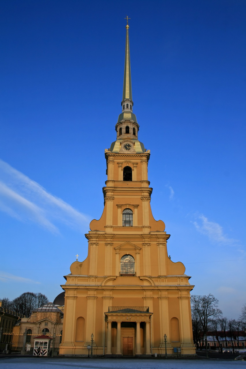 Peter and Paul Fortress